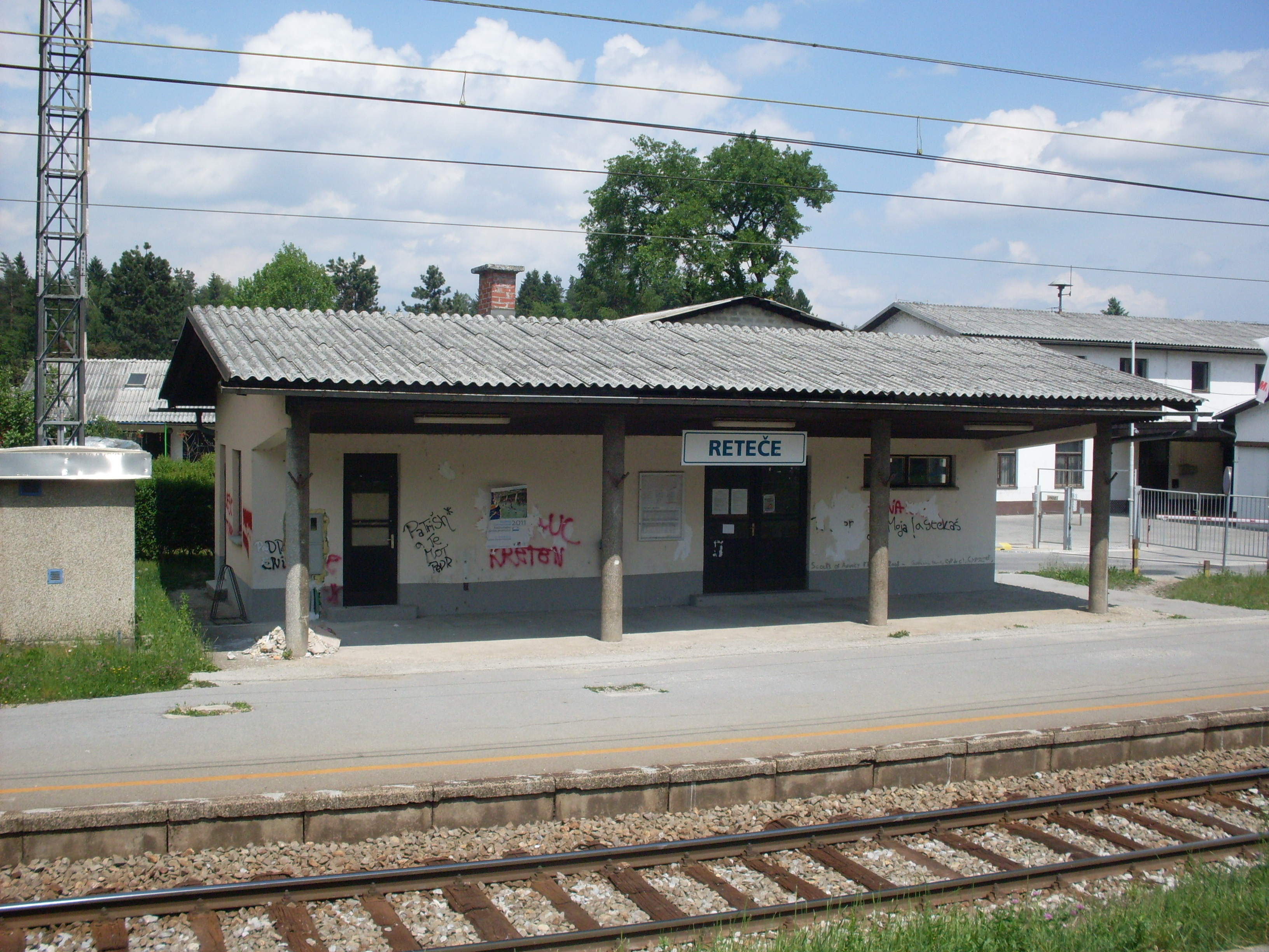 Railway halt in Reteče, Slovenia